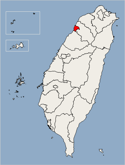 Location of Hsinchu City in Taiwan